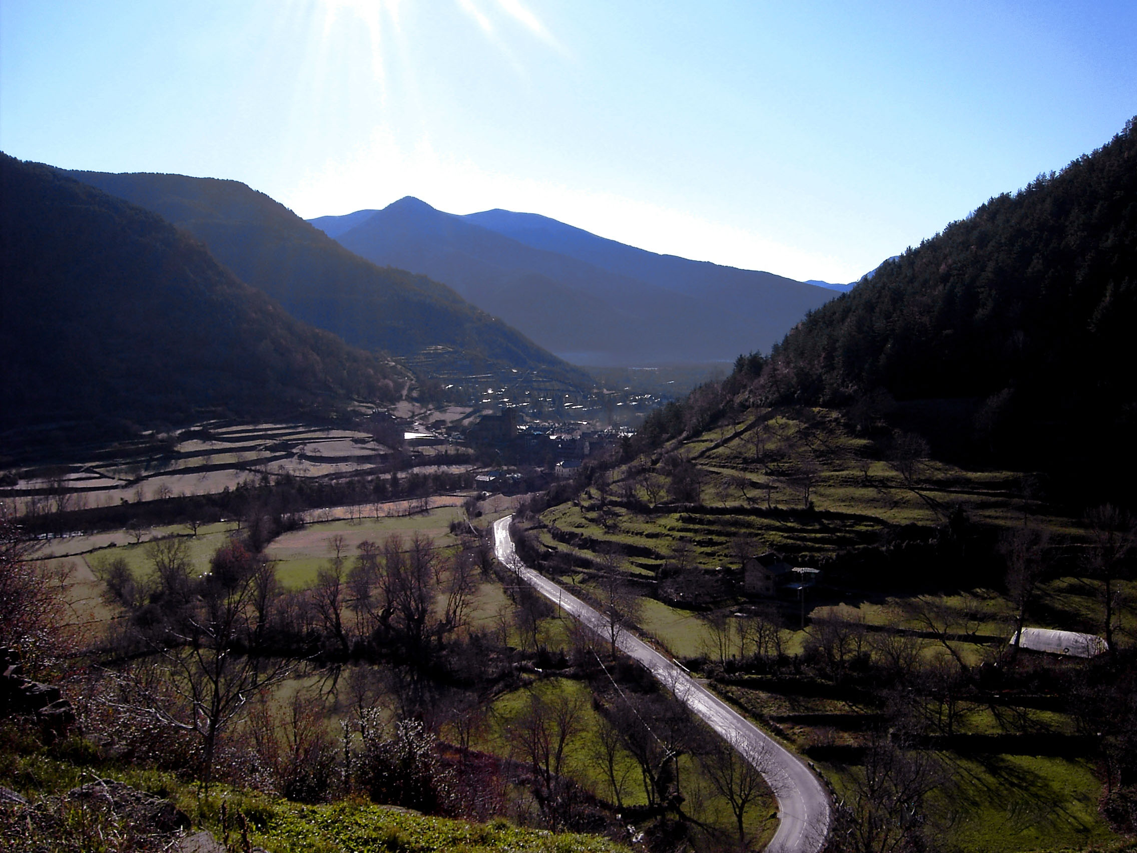 View on the Broto's Valley, on the river Ara side, with the name-giving town at the center of the picture. Huesca, Spain.